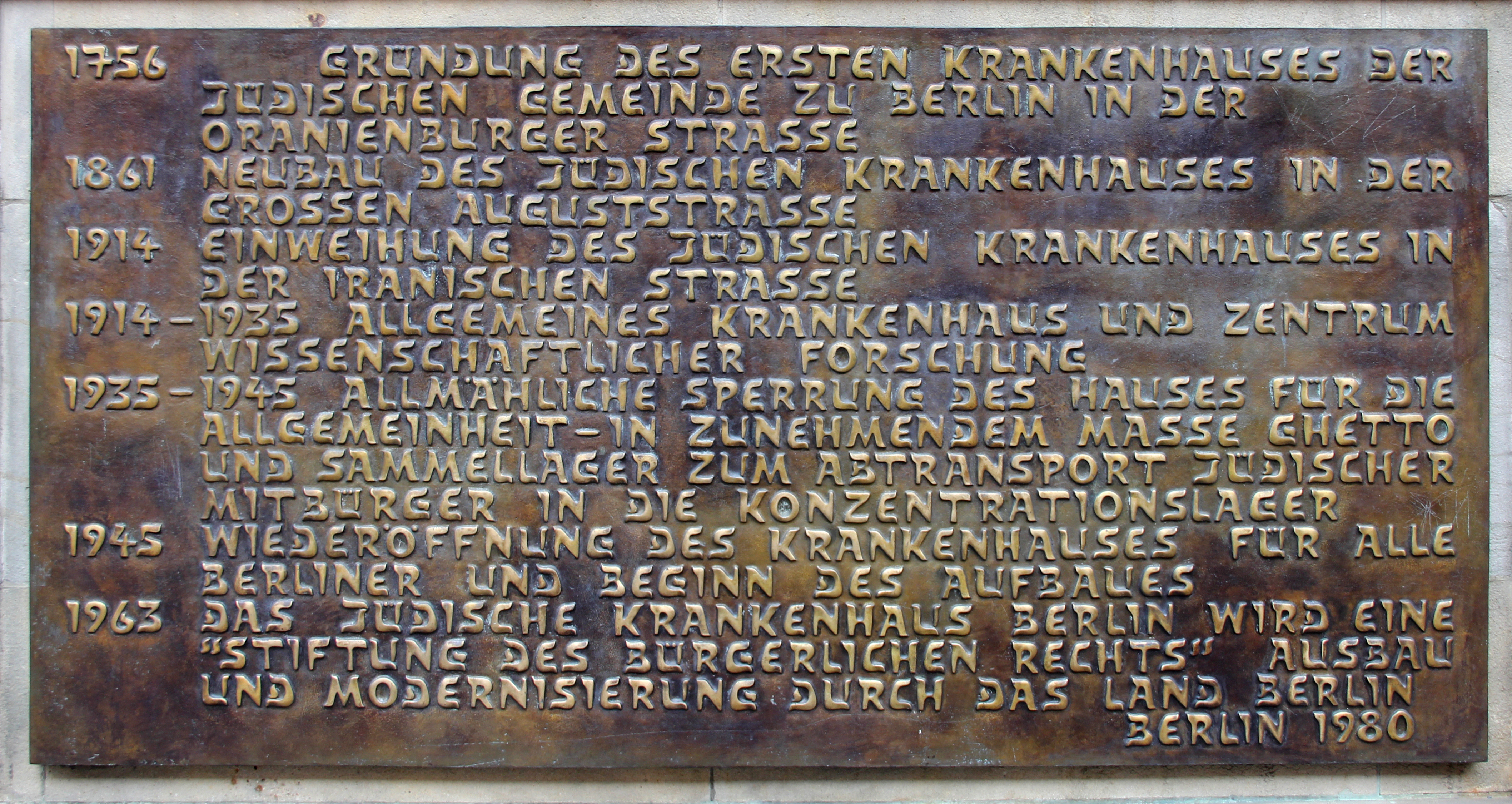 Memorial plaque, Jüdisches Krankenhaus by August Jäkel, 1980, Heinz-Galinski-Straße 1, Berlin-Gesundbrunnen, Germany Koordinate:52°33′20″N 13°22′19″E / 52.55556°N 13.37194°E